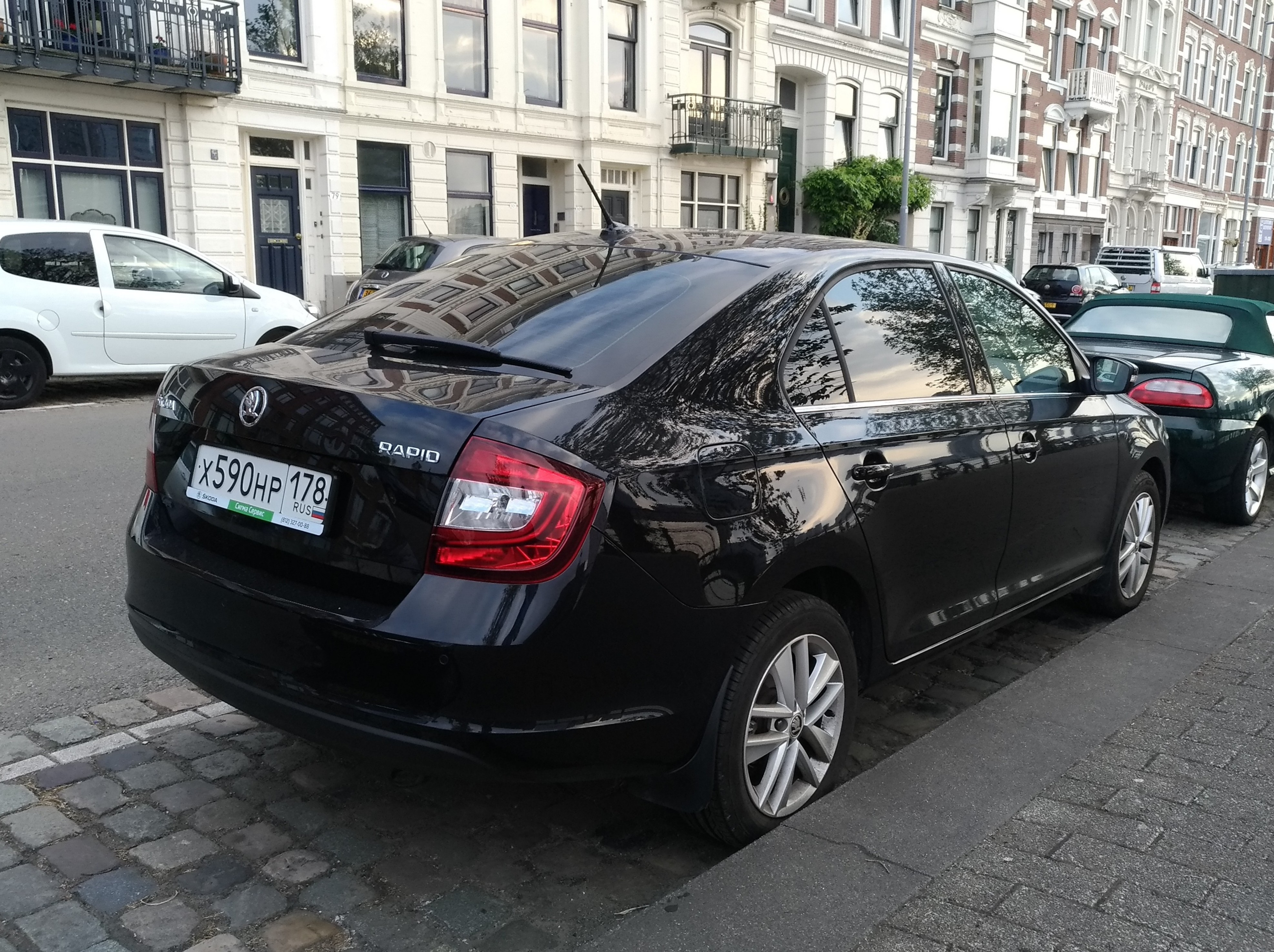 Skoda Rapid with Russian plates at Rotterdam. Very surprised to see a Russian plate in this part of Rotterdam